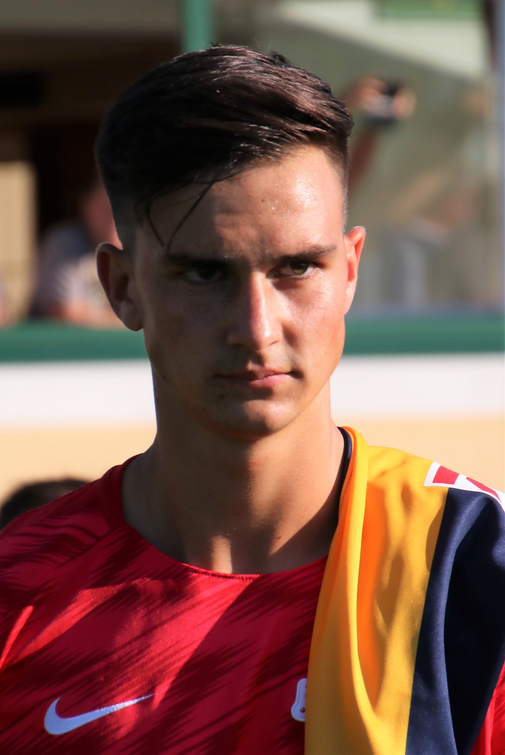 FC RB Salzburg gegen Kayseri Spor Kulübü (Testspiel, 23. Juli 2019)